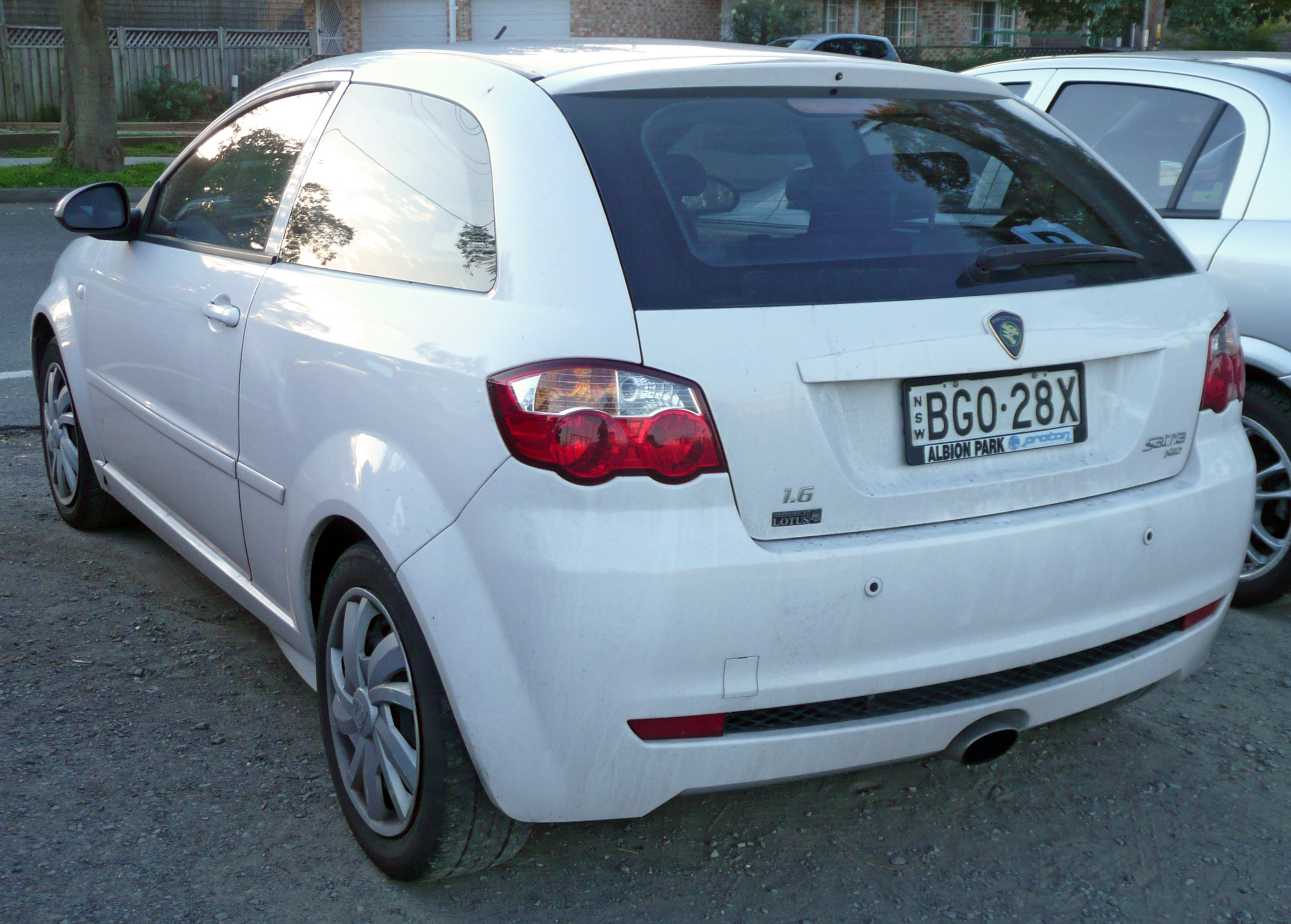 2007–2009 Proton Satria (BS) Neo GX hatchback. Photographed in Sutherland, New South Wales, Australia.